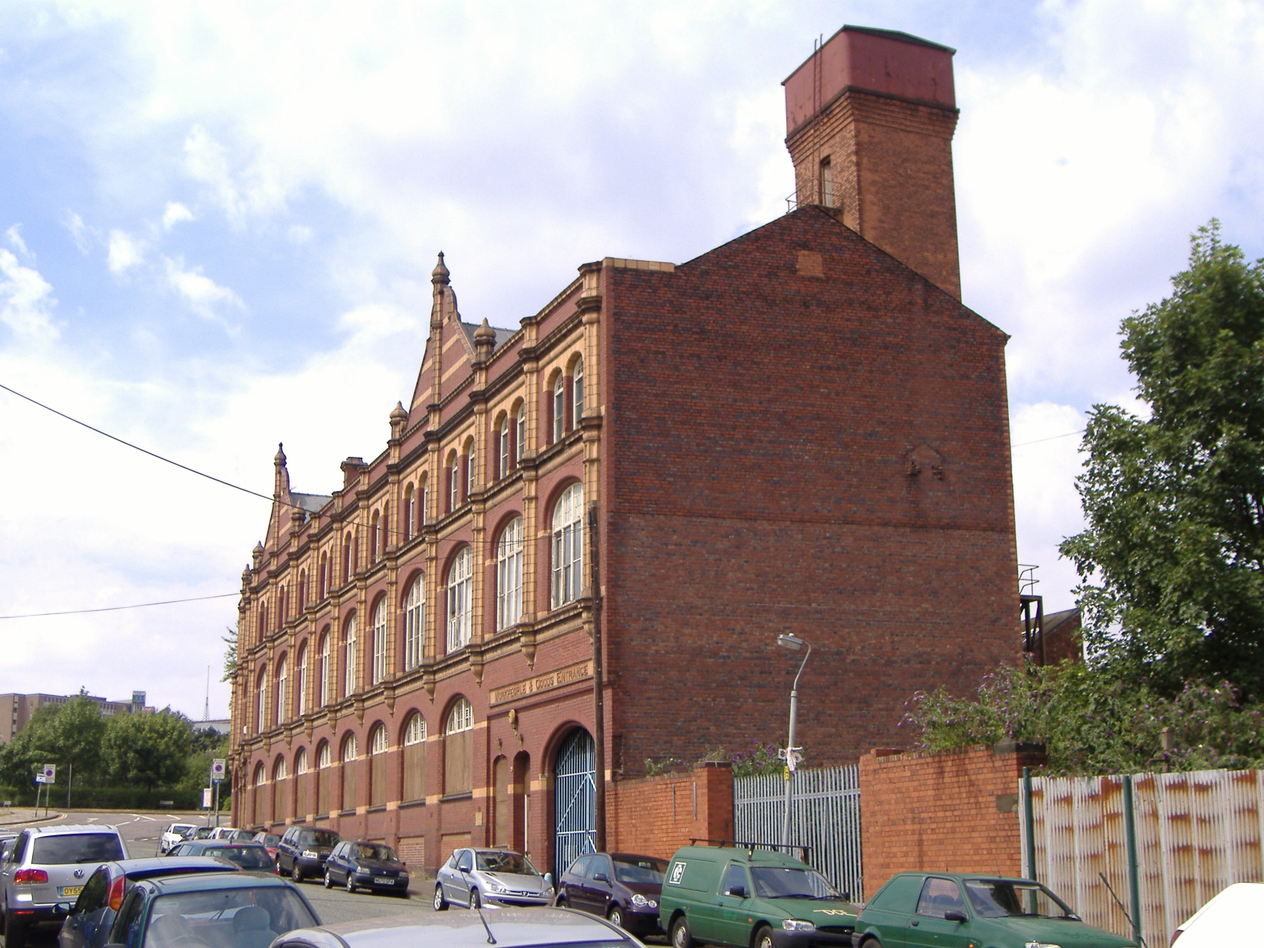 Created by Erebus555. This is the Belmont Row Works on Belmont Row on a site selected for a major development named Ventureast. This building was seriously damaged by fire in January 2007 and a few days later, collapsed due to high winds.